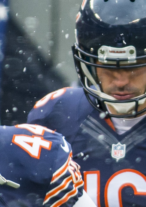 Pat O'Donnell of the Chicago Bears in a game against the Minnesota Vikings on November 16, 2014.